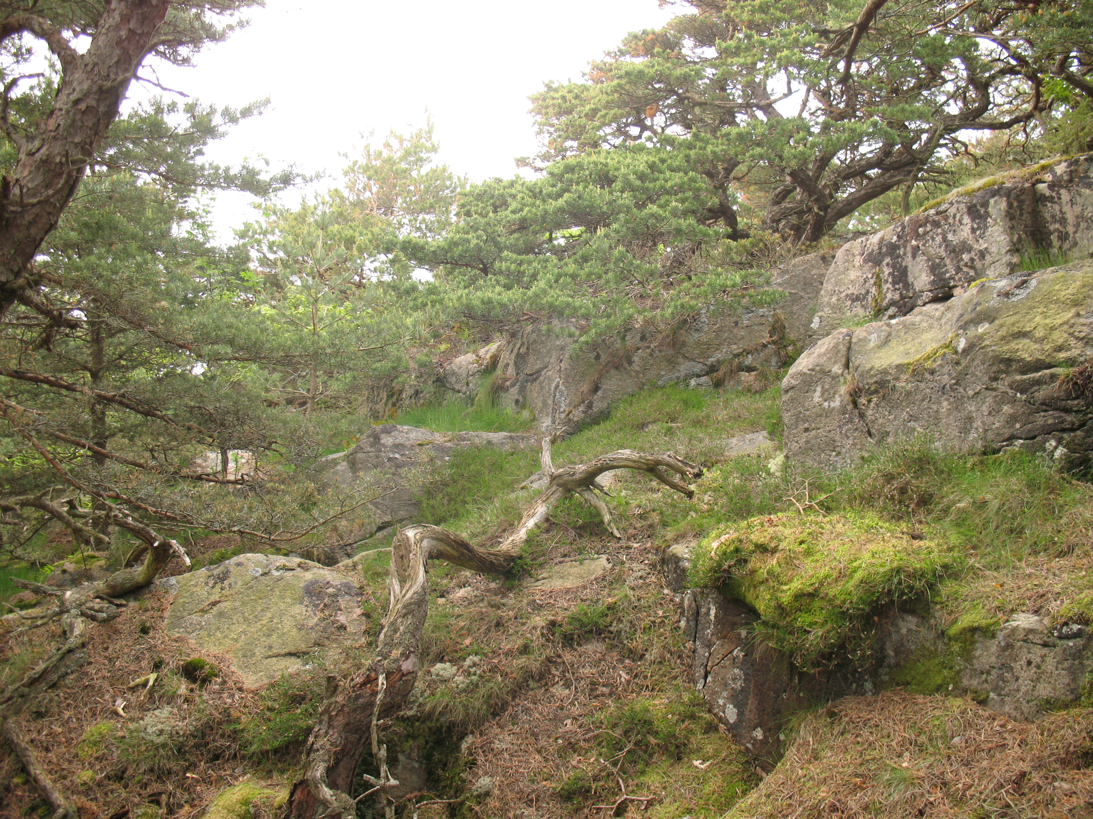 Picture of typical Scots Pine forest at Särö Västerskog, a nature reserve on the Swedish West Coast